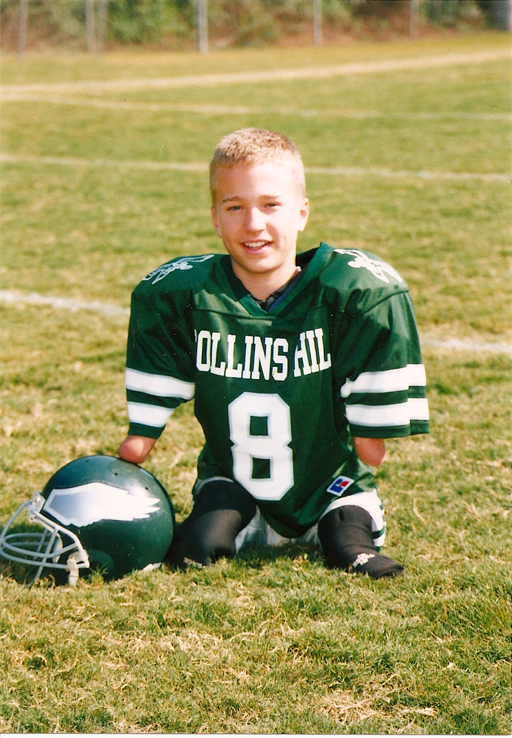 ESPY award winner Kyle Maynard in football uniform.